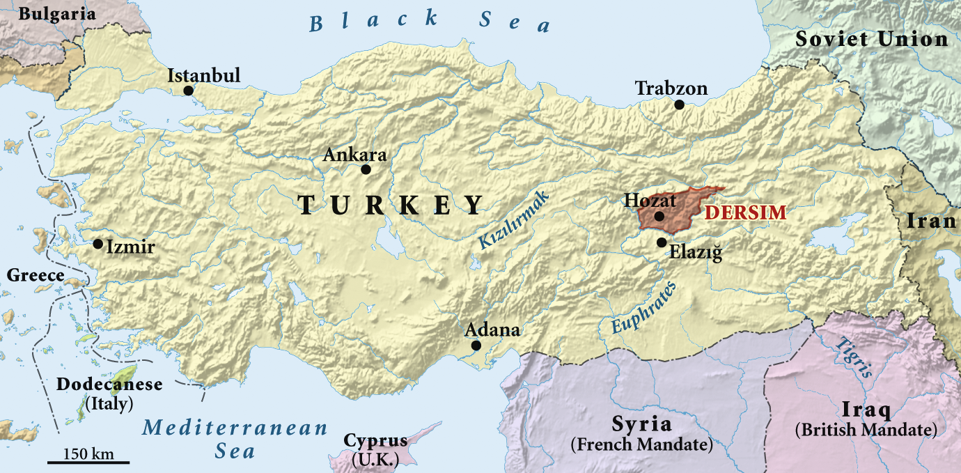 Dersim region in the mid 1930s, English version